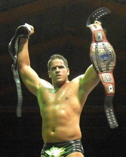 Chris Angel upon becoming the first undefeated IWA Undisputed World Heavyweight Champion.